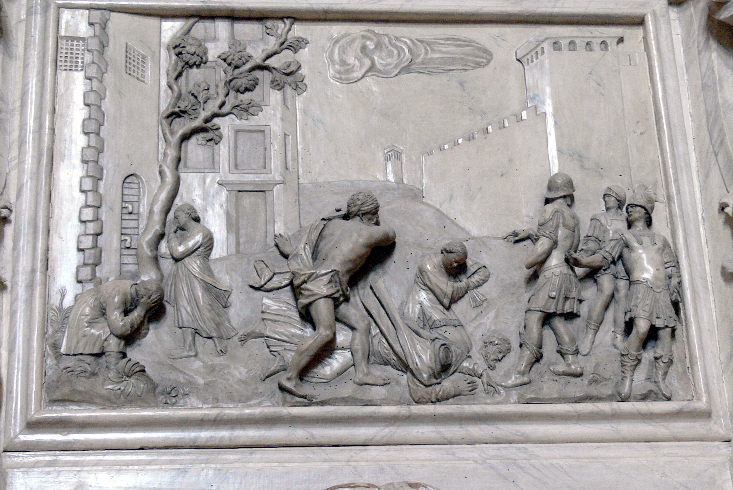 Udine, Italy. Cathedral Santa Maria Annunziata: Baroque pulpit ( 1737 ) - Martyrdom of saints Hermagoras and Fortunatus.